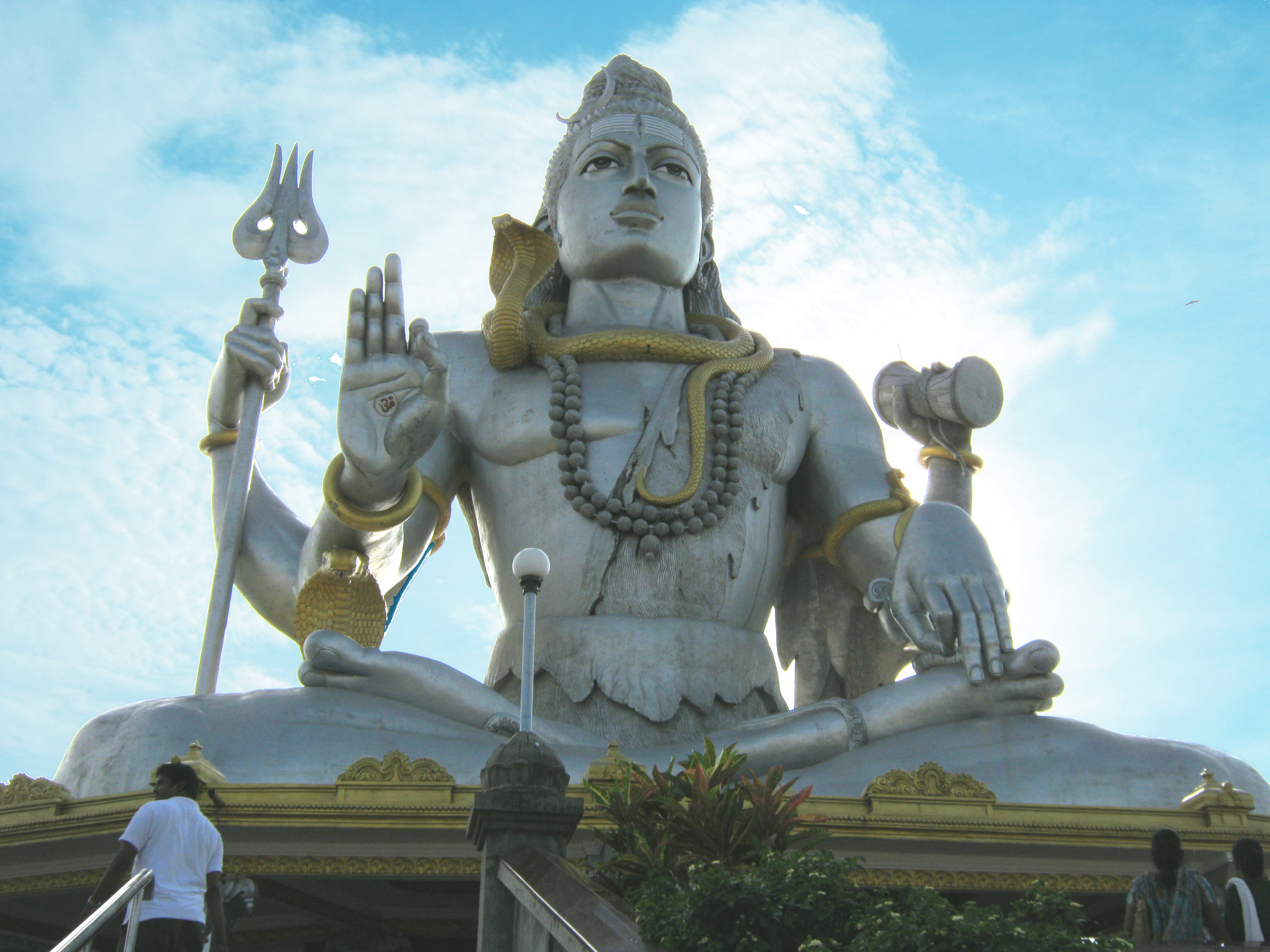 Murudeshwara Temple